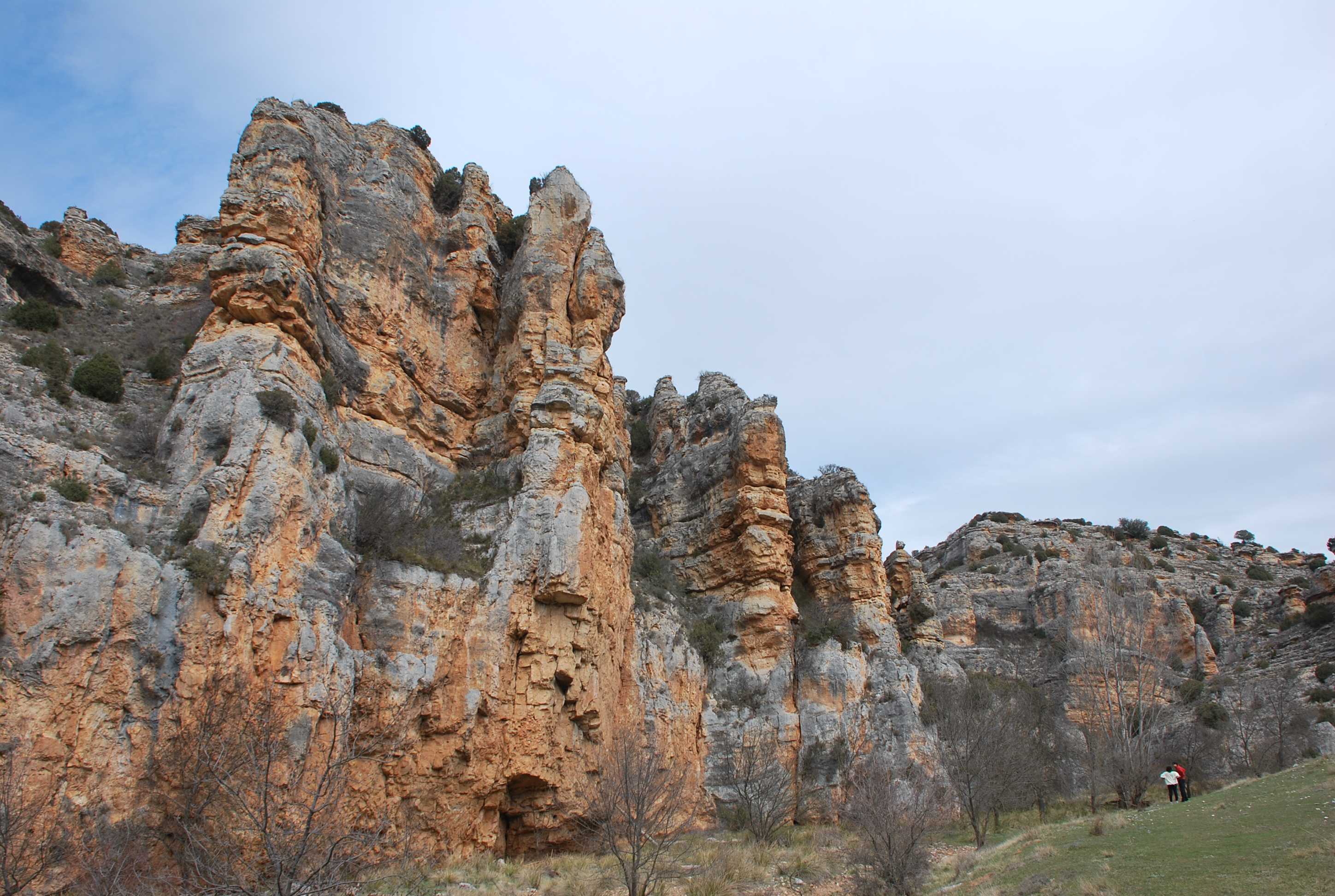 This is a photography of a Site of Community Importance in Spain with the ID: ES2430109. Natura2000 entry, EEA entry